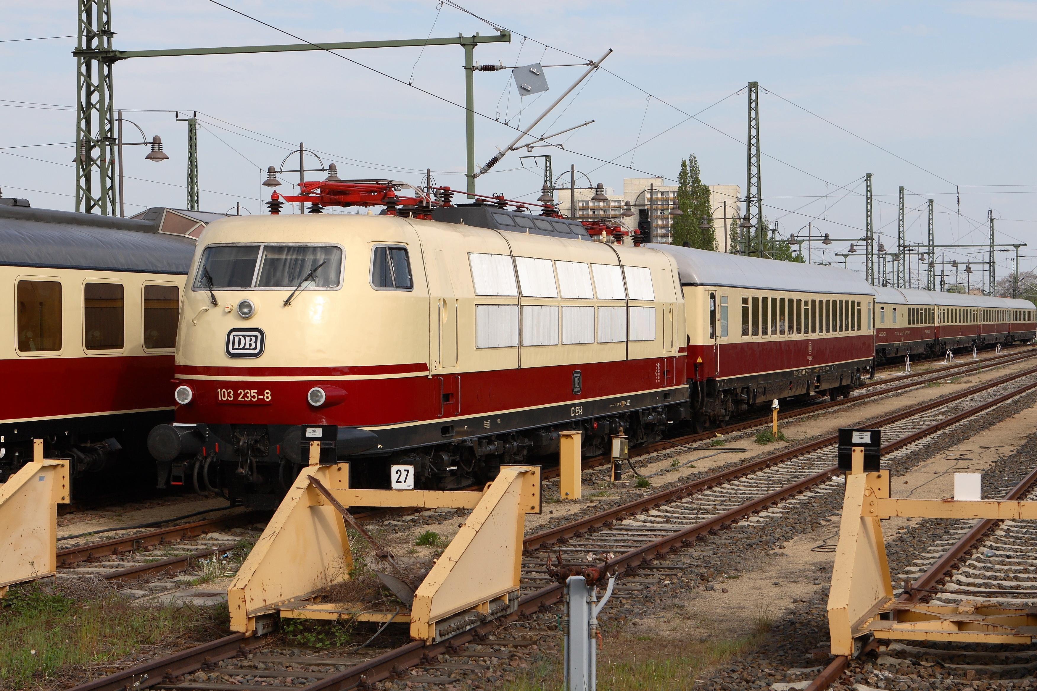 Ex-TEE Rheingold BR 103 235-8 at Dresden Mainstation (Germany) during a special excursion in 2007. (The TEE Rheingold never served Dresden.)